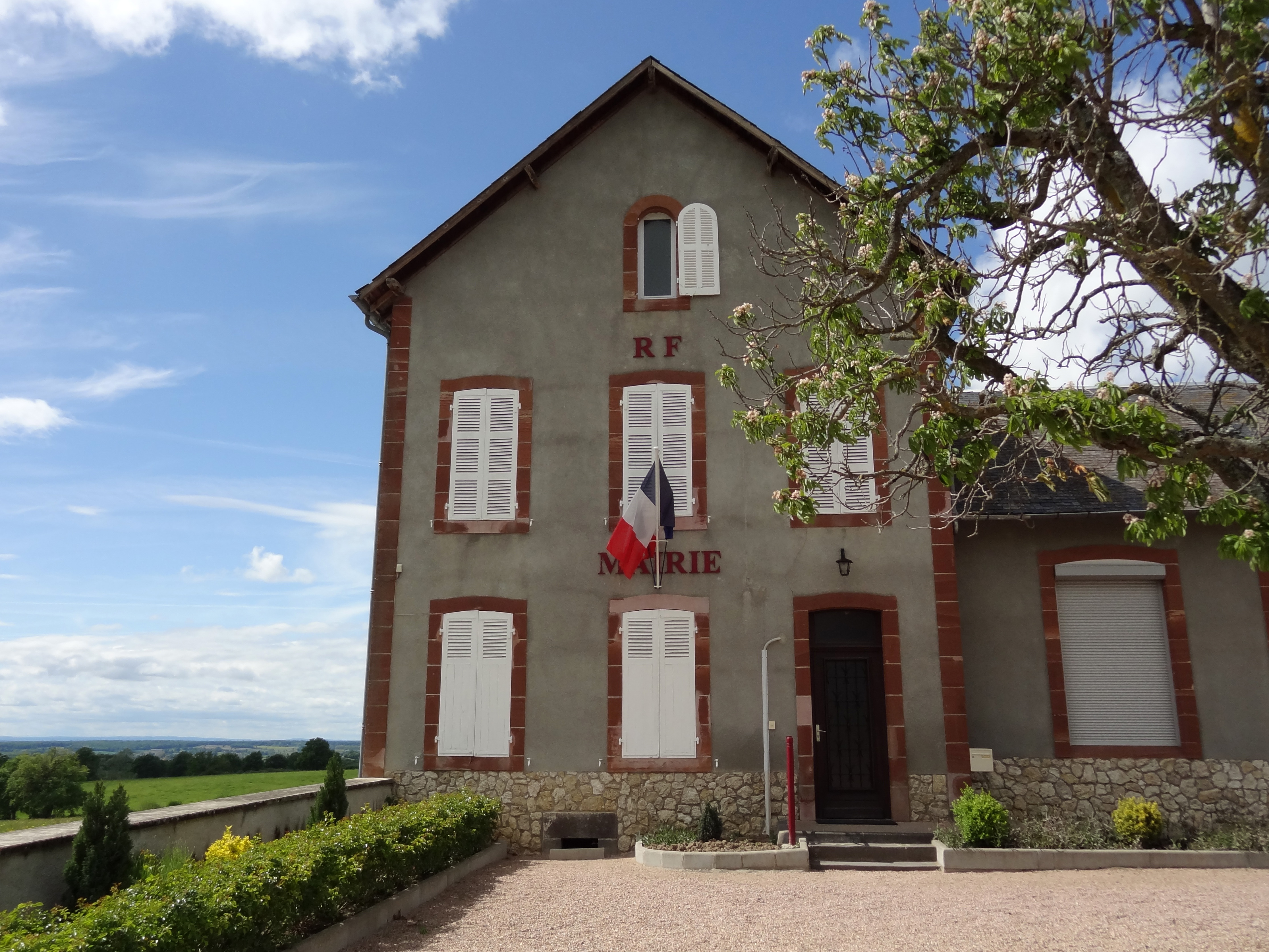 Sorbier town hall, Allier, France